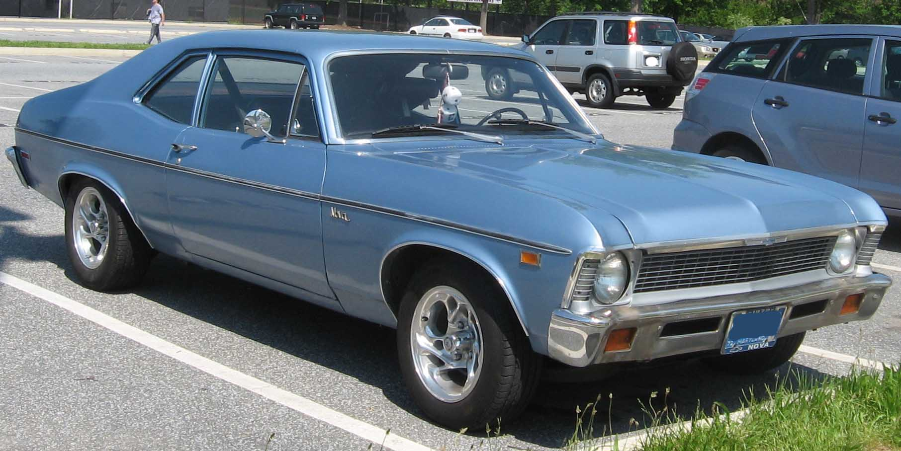 1972 Chevrolet Nova photographed in College Park, Maryland, USA.